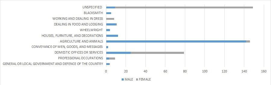 The Occupation of Males and Females in Hunton Civil Parish, Kent, as reported by the 1881 Census